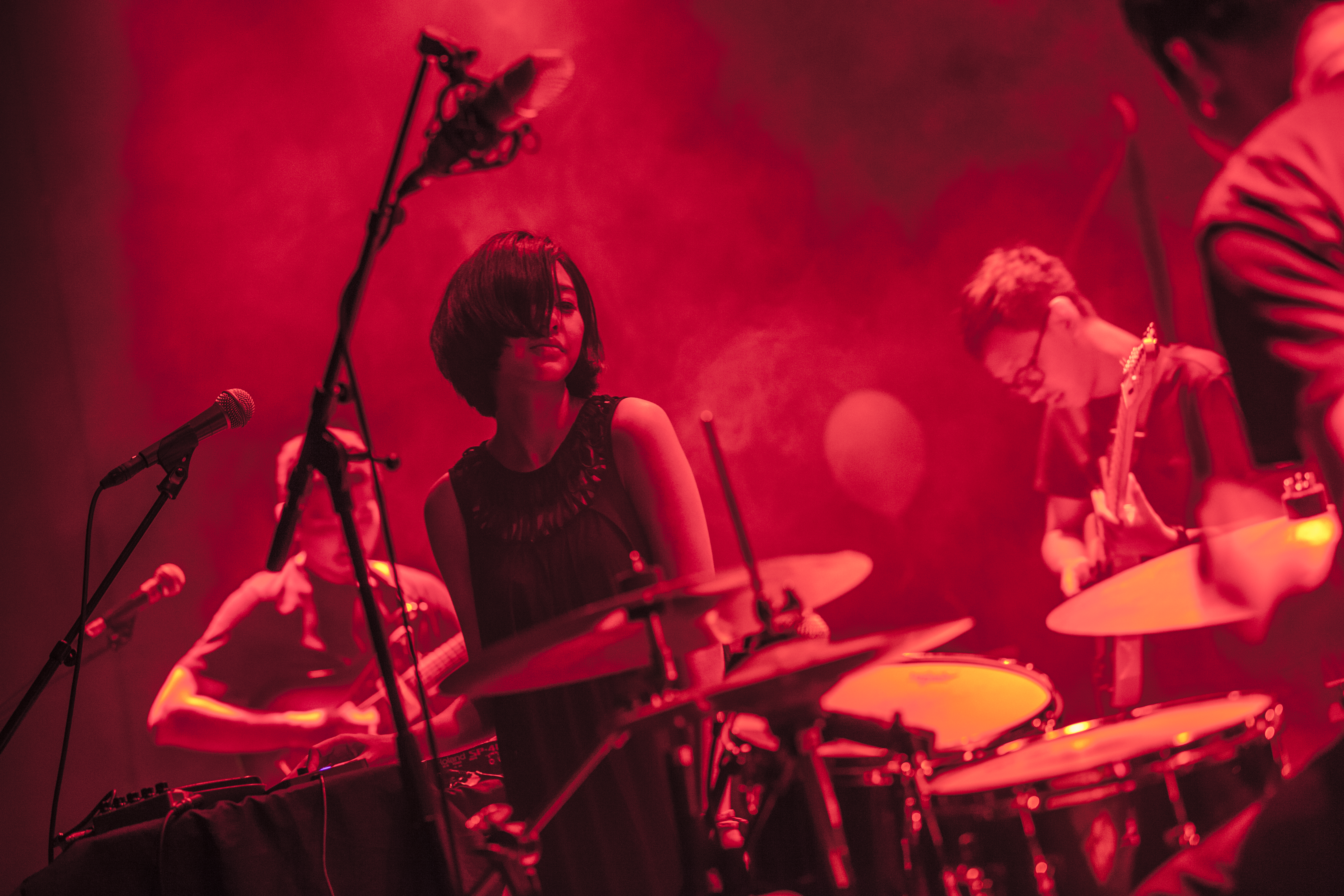 Photo of the band TREES & WILD in Finland 2014 Other information Photo of the band TREES & WILD in Finland 2014